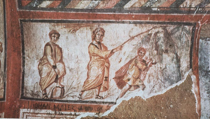 Painting on the wall of an early christian catacomb. (the Cubiculum of the Sheep) Moses unlacing his sandals. / Moses (or Peter?) striking a rock to get water (in the desert?).